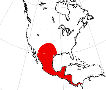 Range of Paratoceras based on fossil recovery